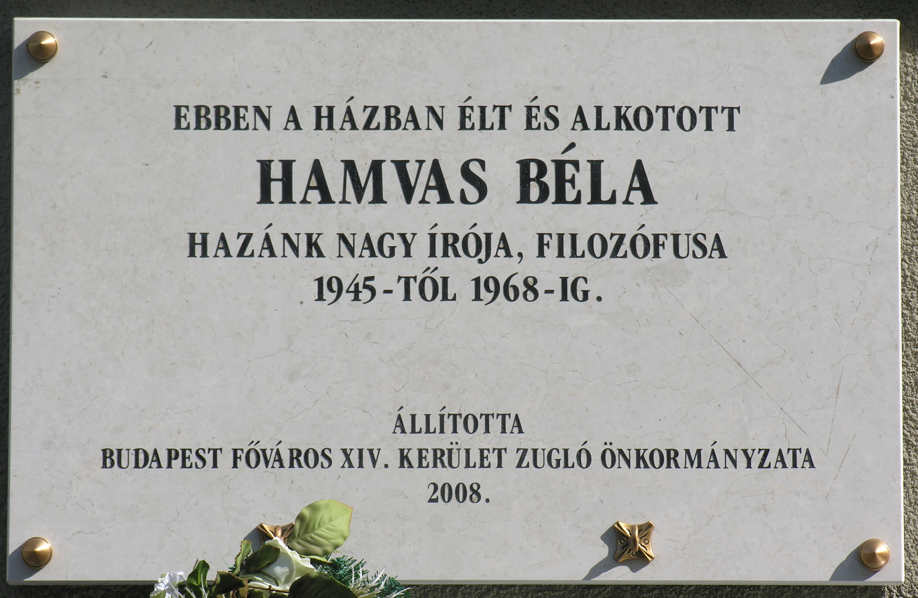 Commemorative plaque of Béla Hamvas, Budapest District XIV, Erzsébet királyné Street No 11